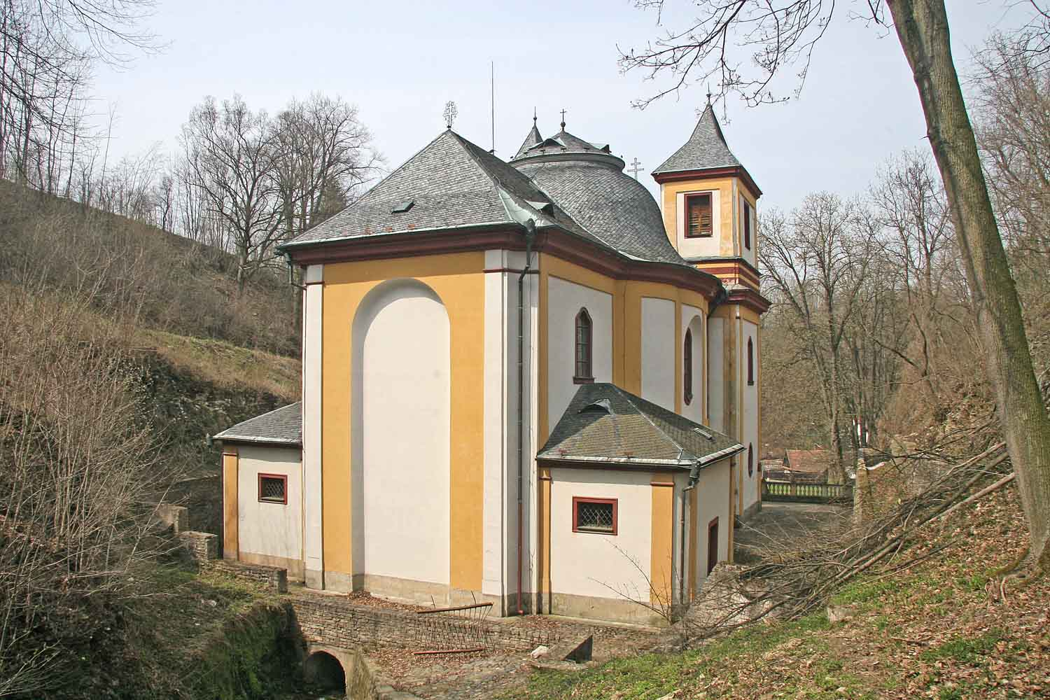 St Nicholas church in Vraclav, Czech Republic